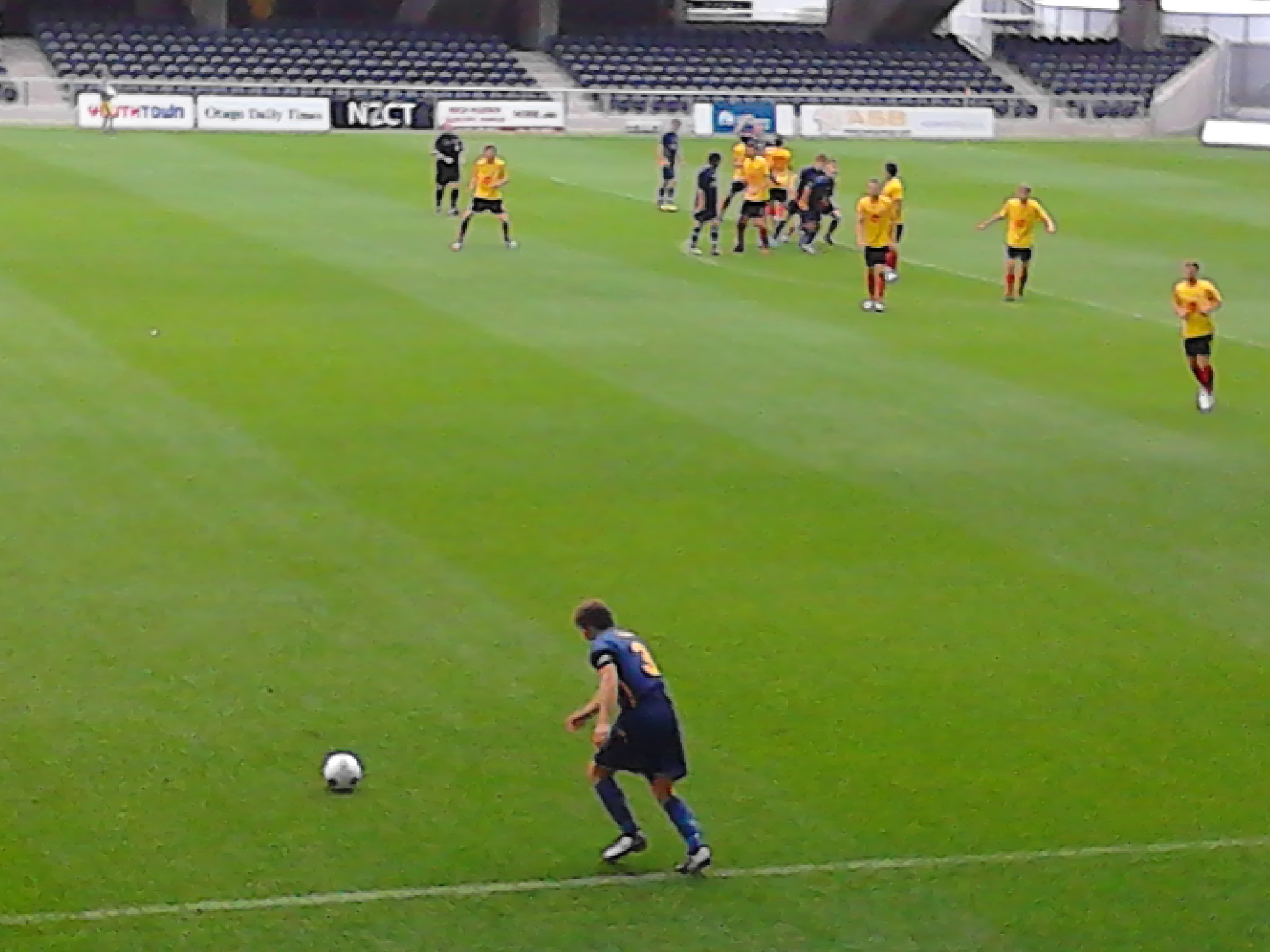 Football match between Otago United and Waikato FC in Round 7 of the 2011–12 ASB Premiership. The match was played on 15 January 2012 in Forsyth Barr Stadium, Dunedin, New Zealand. Waikato FC won the match 2–0.